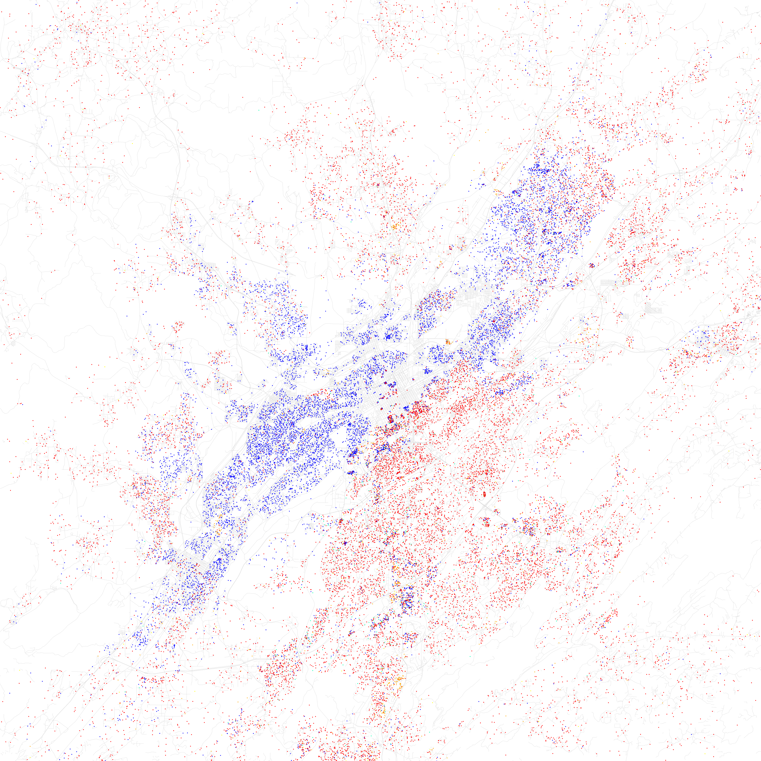 Maps of racial and ethnic divisions in US cities, inspired by Bill Rankin's map of Chicago, updated for Census 2010. Red is White, Blue is Black, Green is Asian, Orange is Hispanic, Yellow is Other, and each dot is 25 residents. Data from Census 2010. Base map © OpenStreetMap, CC-BY-SA